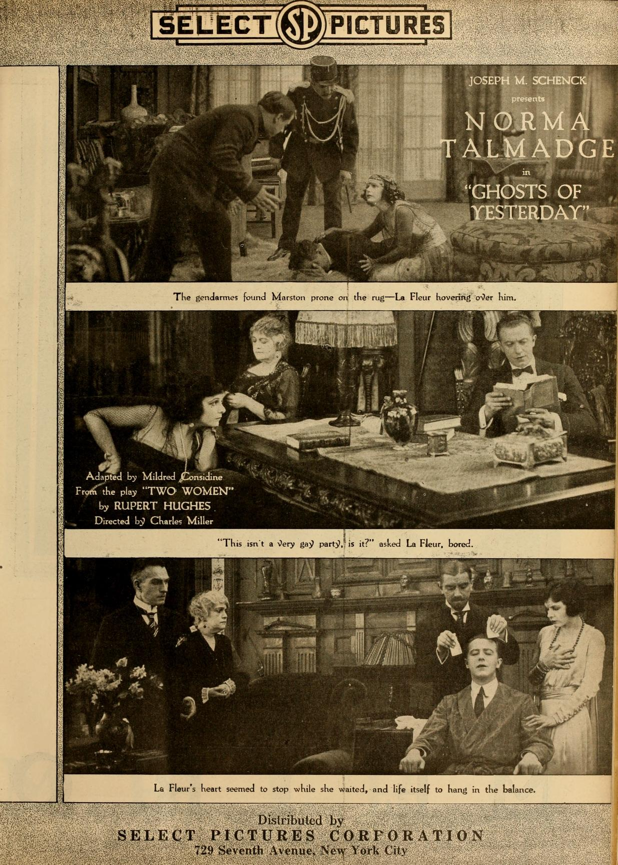 Advertisement in the January 1918 Moving Picture World, for the American drama film The Ghosts of Yesterday (1918) with Norma Talmadge, Eugene O'Brien, and other unidentified actors (Stuart Holmes and Ida Darling in lower still).